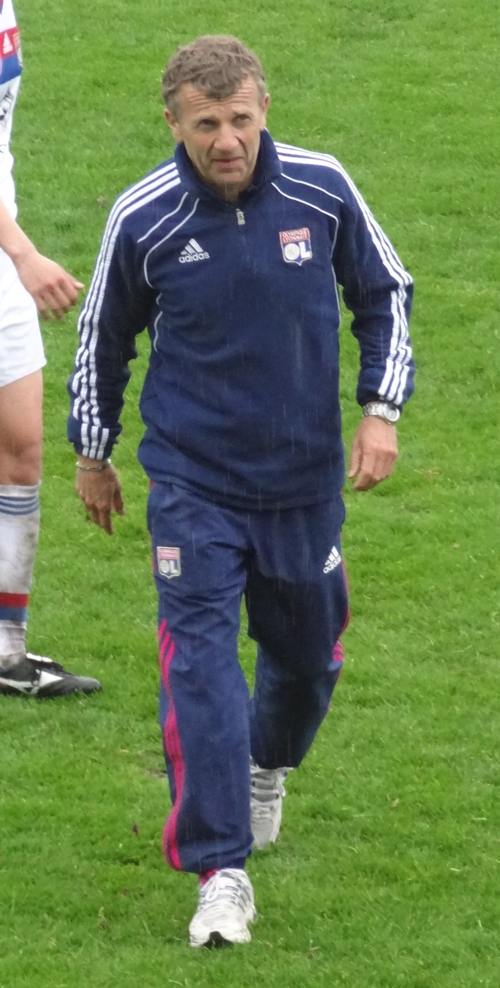 Patrice Lair (Olympique Lyonnais, coach)